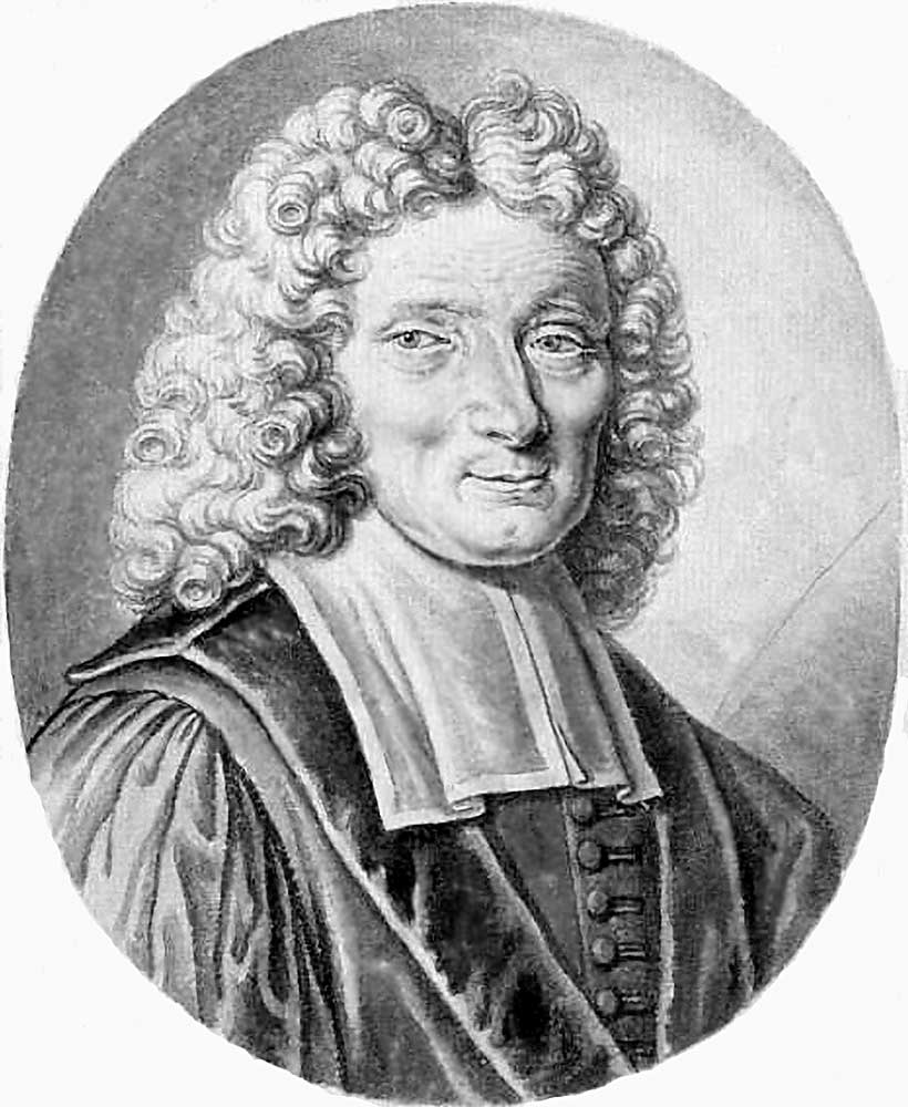 Charles Drelincourt the Younger (1633-1697) French physician